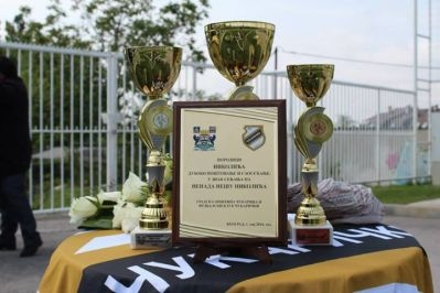 A photo from Nenad Nesa Nikolic tournament